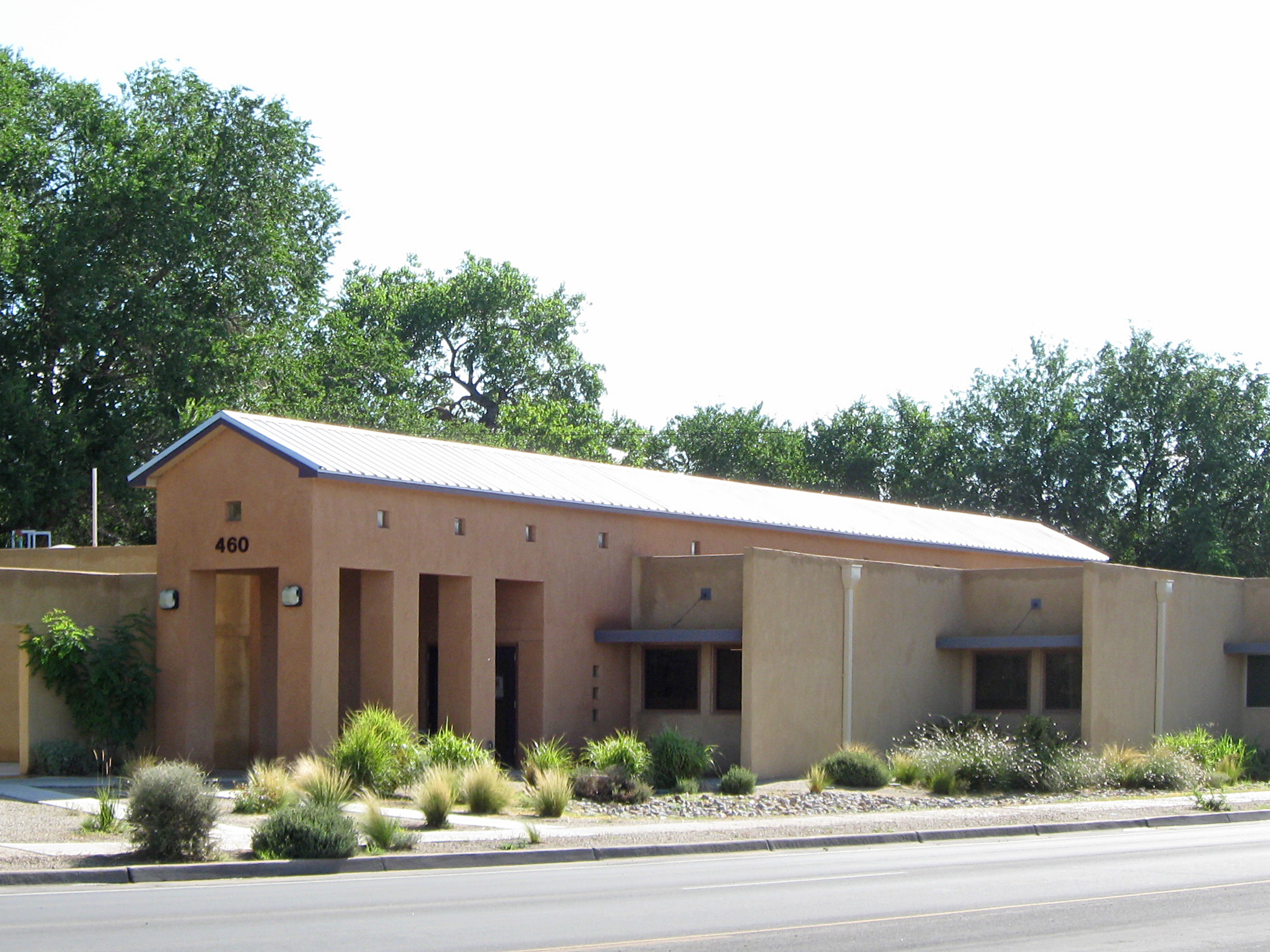 Los Lunas (New Mexico) Public Library, located at 460 Main Street NE.